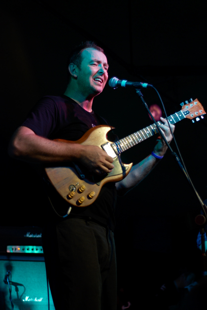 Francis Dunnery on his Welcome To The Wild Country Tour 2007, Robin 2, Bilston